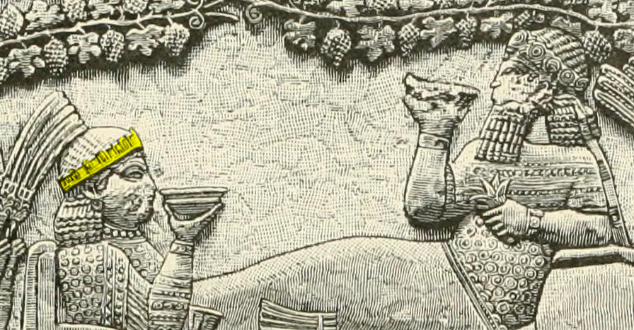 Ashurbanipal and his queen dining, 7th century BCE. Relief from Kouyunjik, Nineveh. In this digital image, the queen's "city of gold" crown is emphasized by yellow coloring.